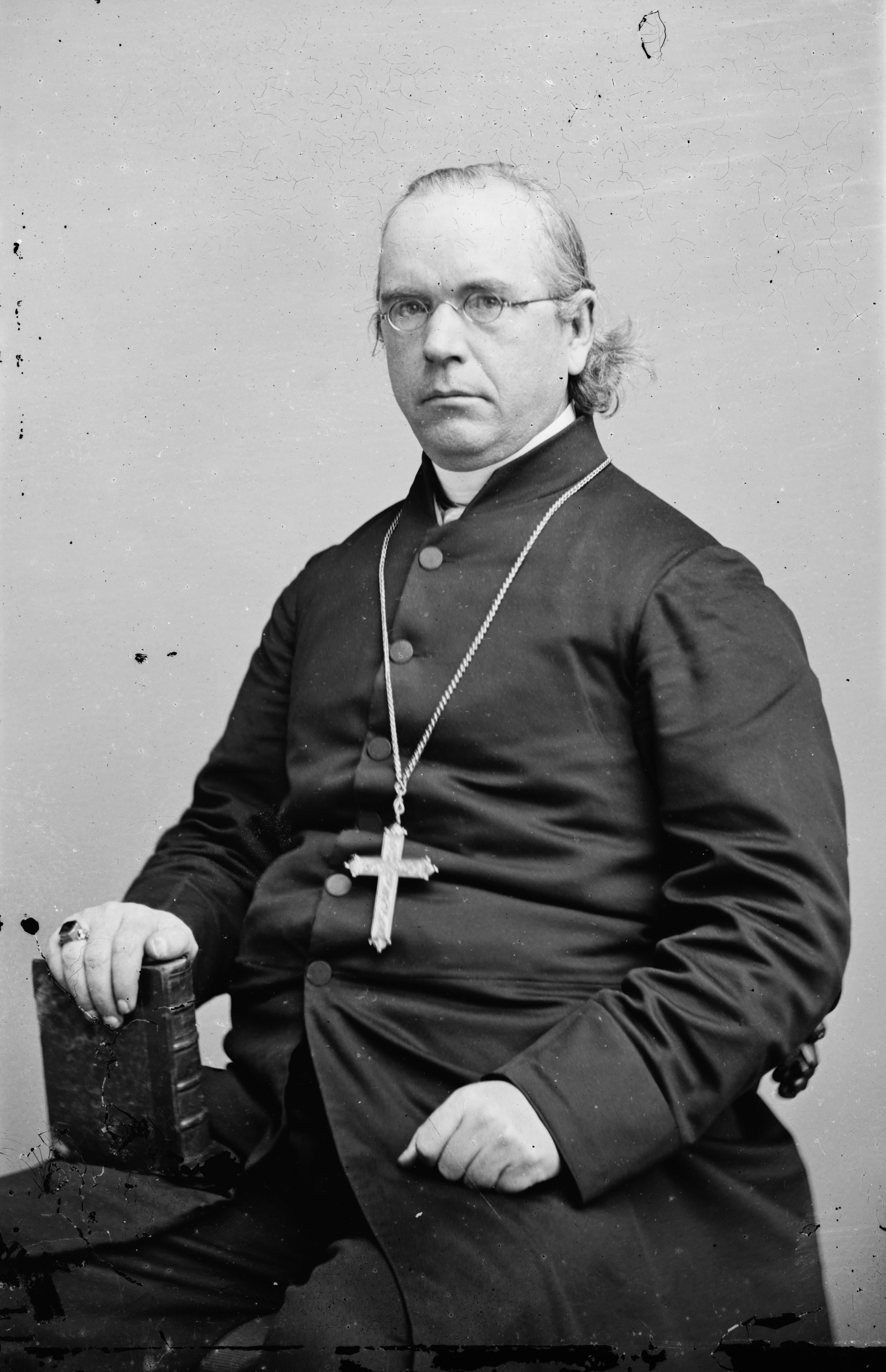 Patrick Lynch (bishop). Library of Congress description: "Bishop Lynch"